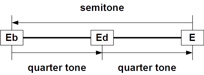 Diagram of a neutral interval after File:Lesser diesis (difference m2-A1).PNG & File:Pythagorean comma (difference A1-m2).PNG.